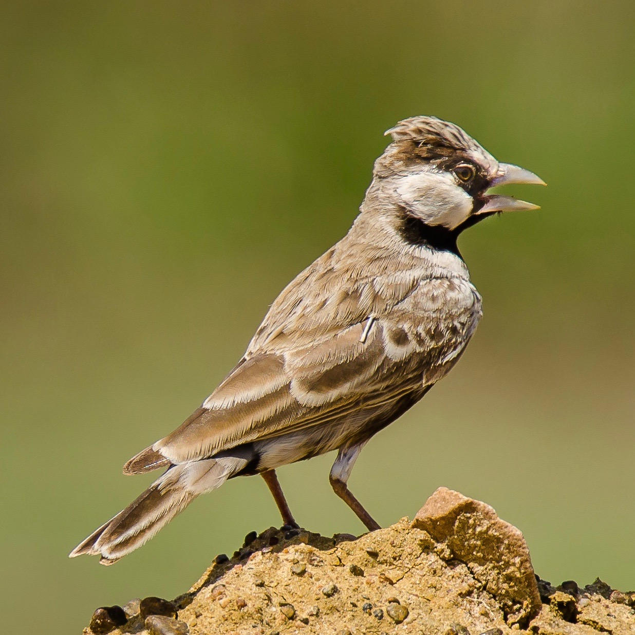 Ashy crowned sparrow lark spotted at Tenneri